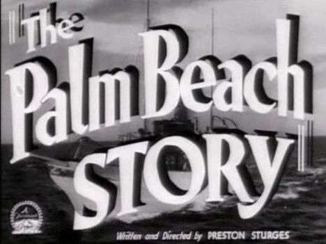 from the film The Palm Beach Story